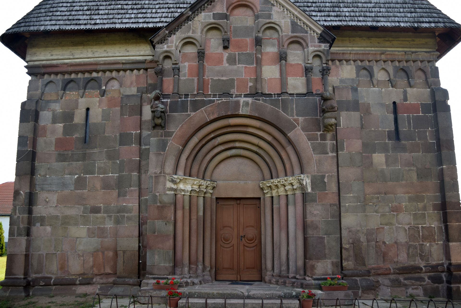 Karcsa, church west